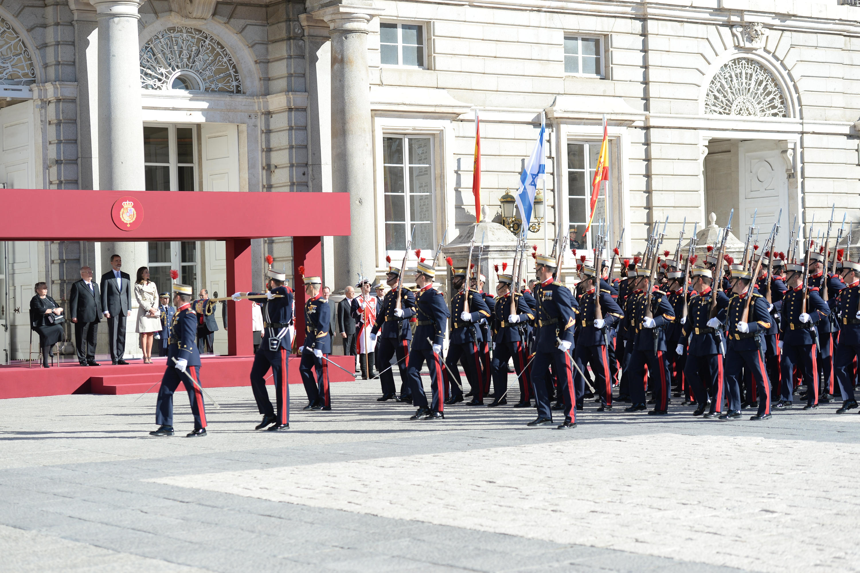 President of the State, Reuven Rivlin, at a special ceremony for a reception at the Spanish royal palace in honor of his arrival. Monday, November 6, 2017. Photo Credit: Haim Tzach / GPO